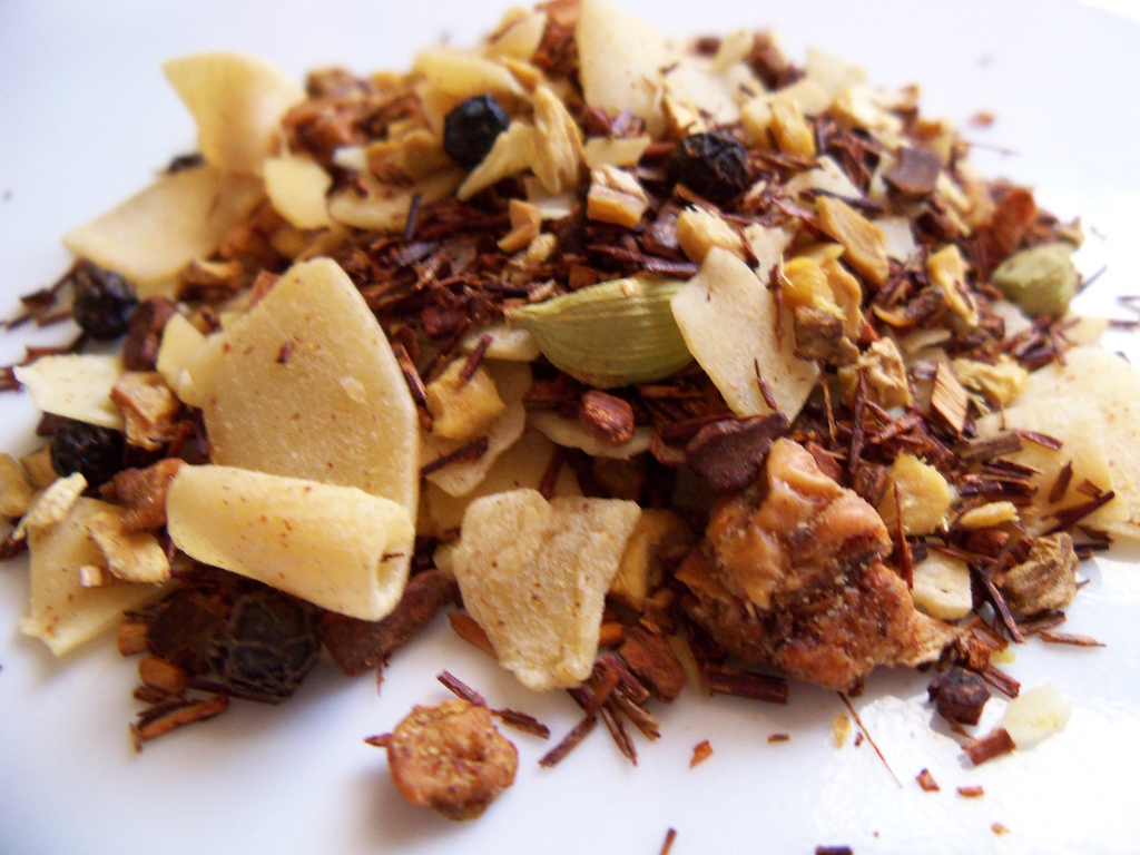 Teavana Ingredients: Red rooibos tea, coconut chips (coconut, coconut fat, sugar), ginger pieces, cinnamon, apple pieces, cardamom, flavoring (ginger, coconut), black pepper & almond pieces.